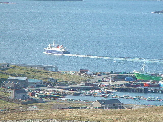 Symbister Harbour, Whalsay. Looking WNW over Symbister from Ward of Clate, Whalsay